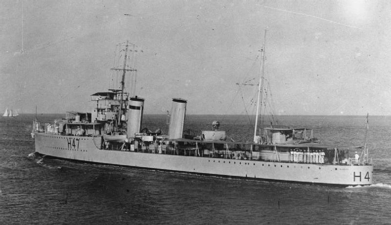 Photograph of British destroyer HMS Blanche.